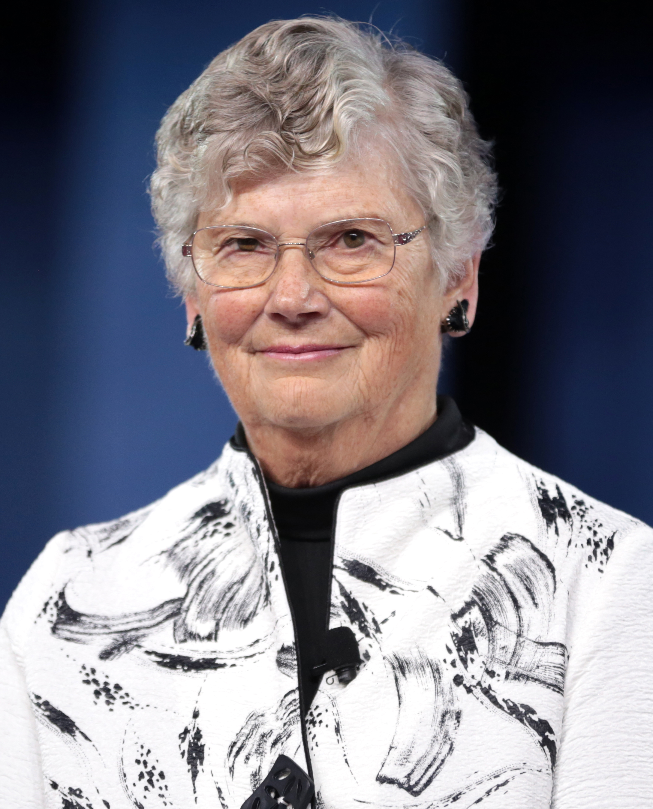 Helen Krieble speaking at the 2017 CPAC in National Harbor, Maryland.